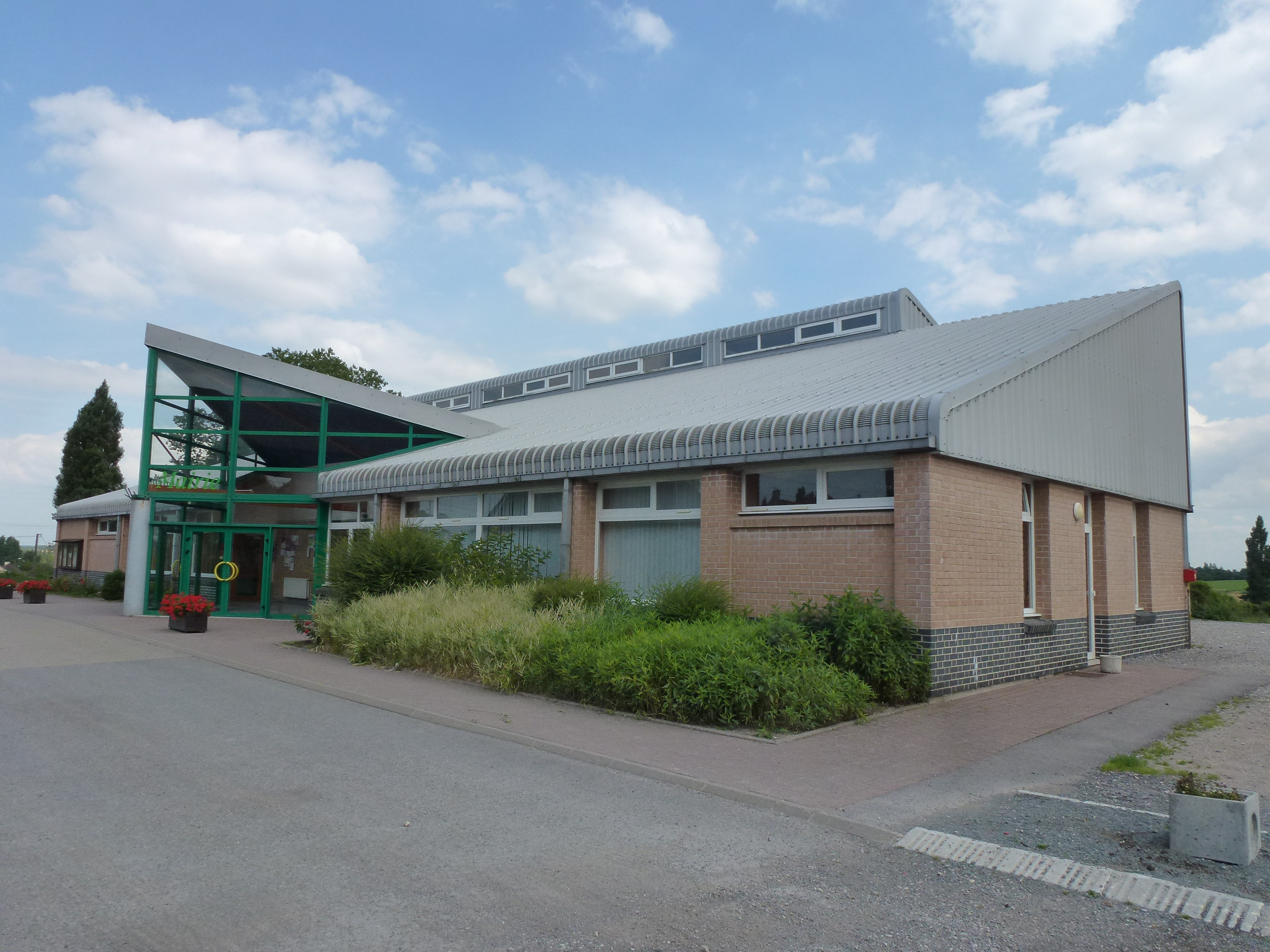 Bayenghem-lès-Éperlecques (Pas-de-Calais) mairie